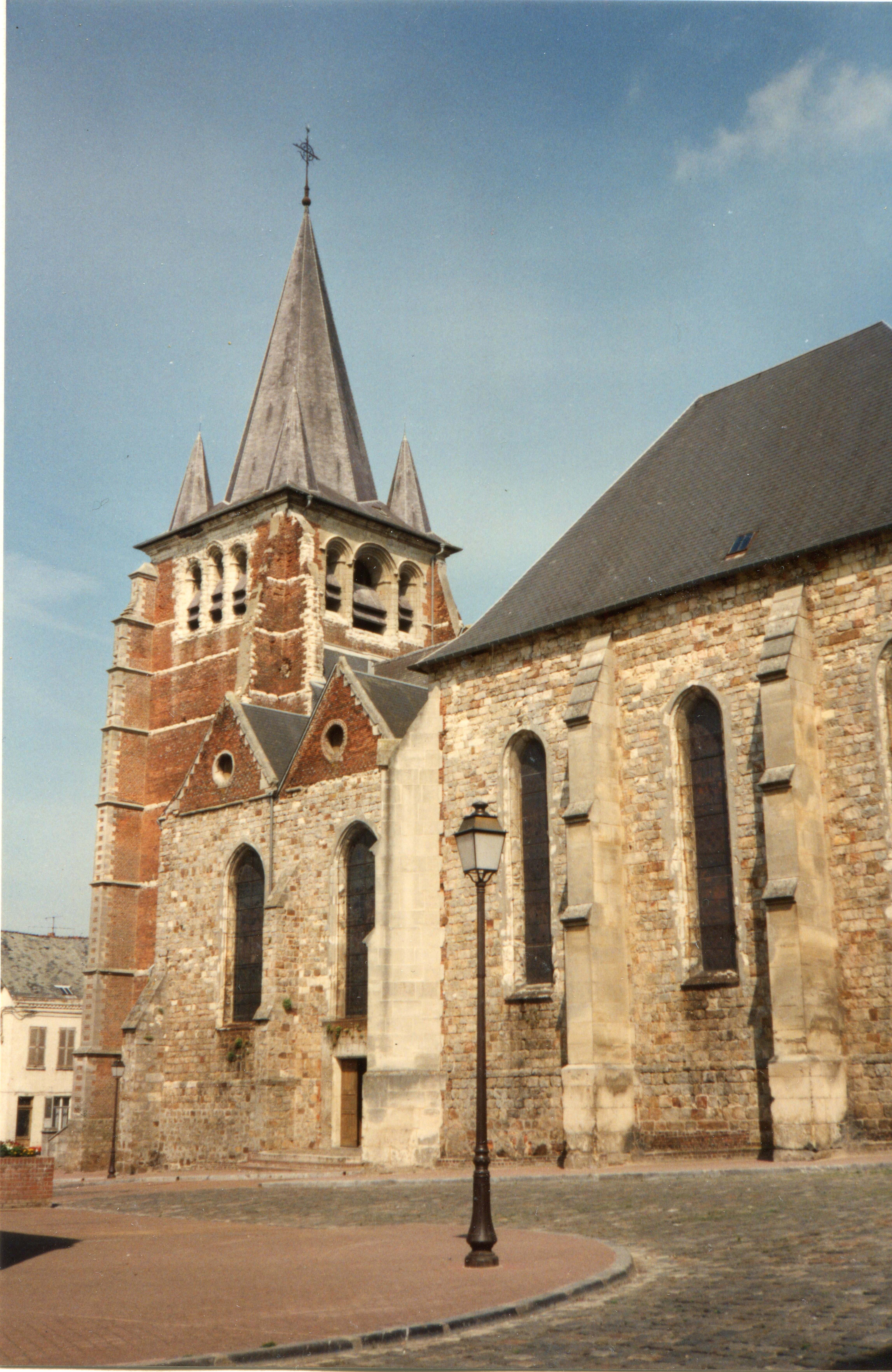 Église Notre-Dame de Vervins en 1991